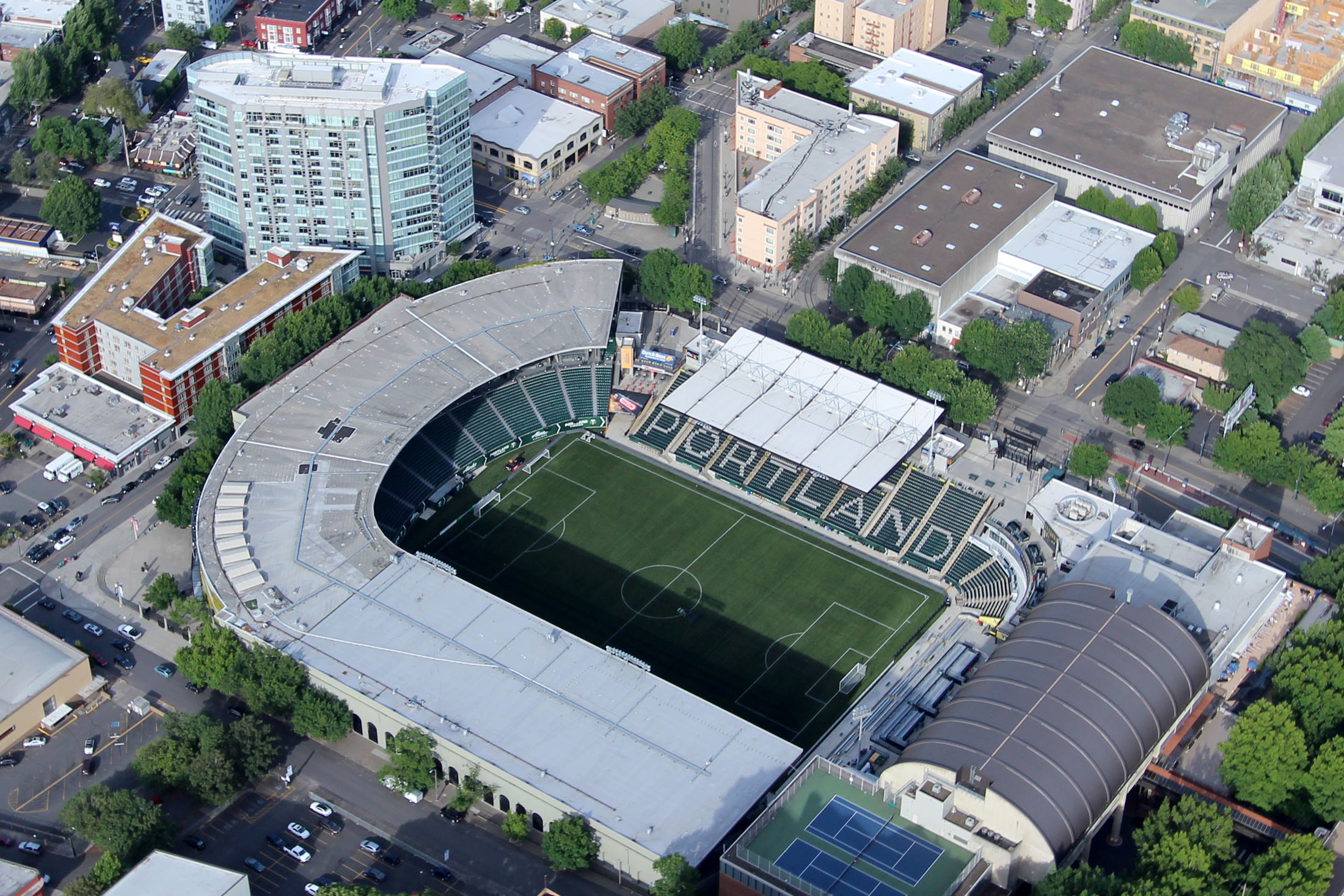 An aerial view of Providence Park, May 2016. The buildings in the lower right third of this view are part of the Multnomah Athletic Club, which abuts the stadium.